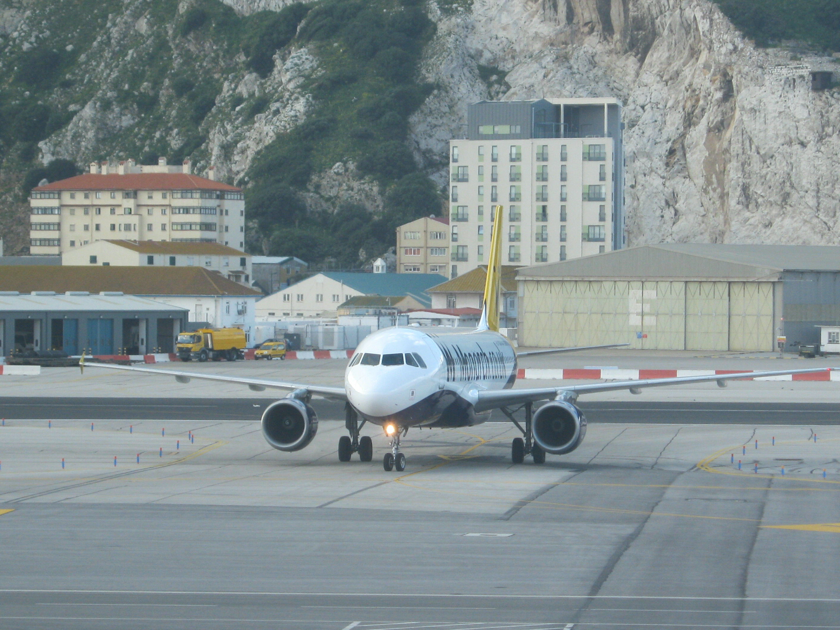 A Monarch Airbus A320-200 G-OZBK taxiing to gate at Gibraltar Airport as ZB068 from Luton